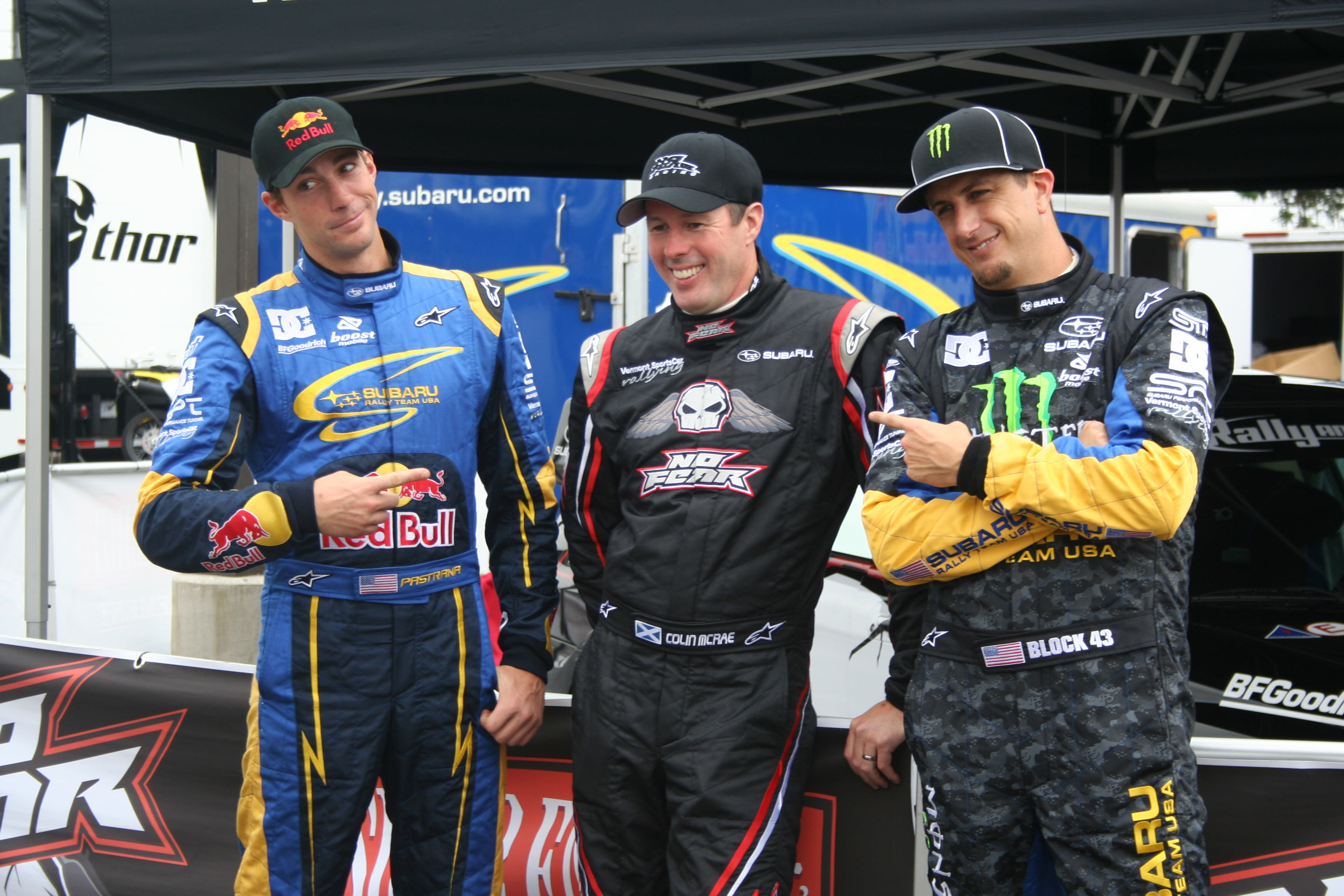 Travis Pastrana, Colin McRae, Ken Block X Games 13 Carson, CA 5 August 2007 Colin McRae 1968-2007